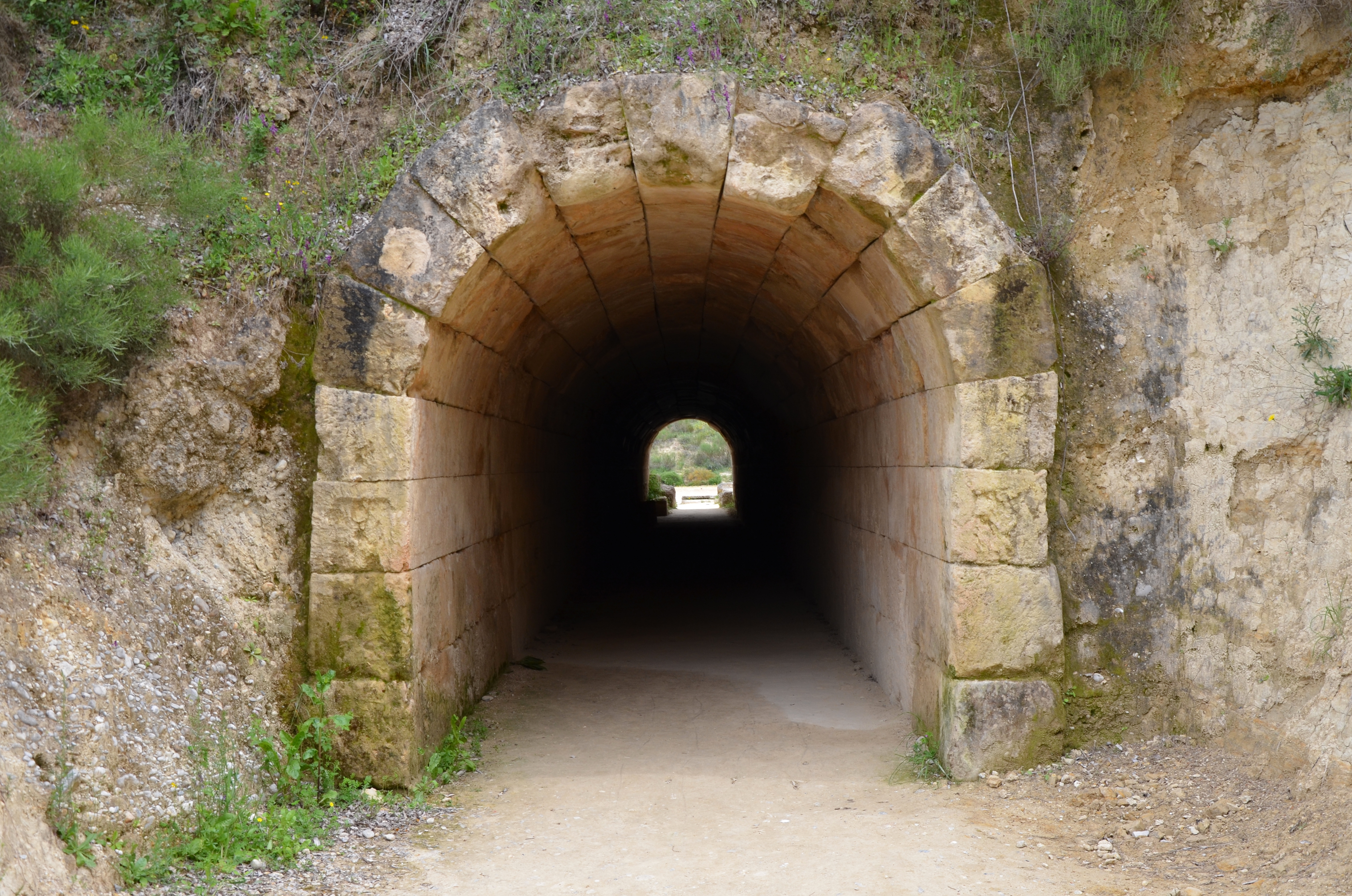 Vaulted entrance tunnel of the Ancient Stadium of Nemea, Ancient Nemea, Greece